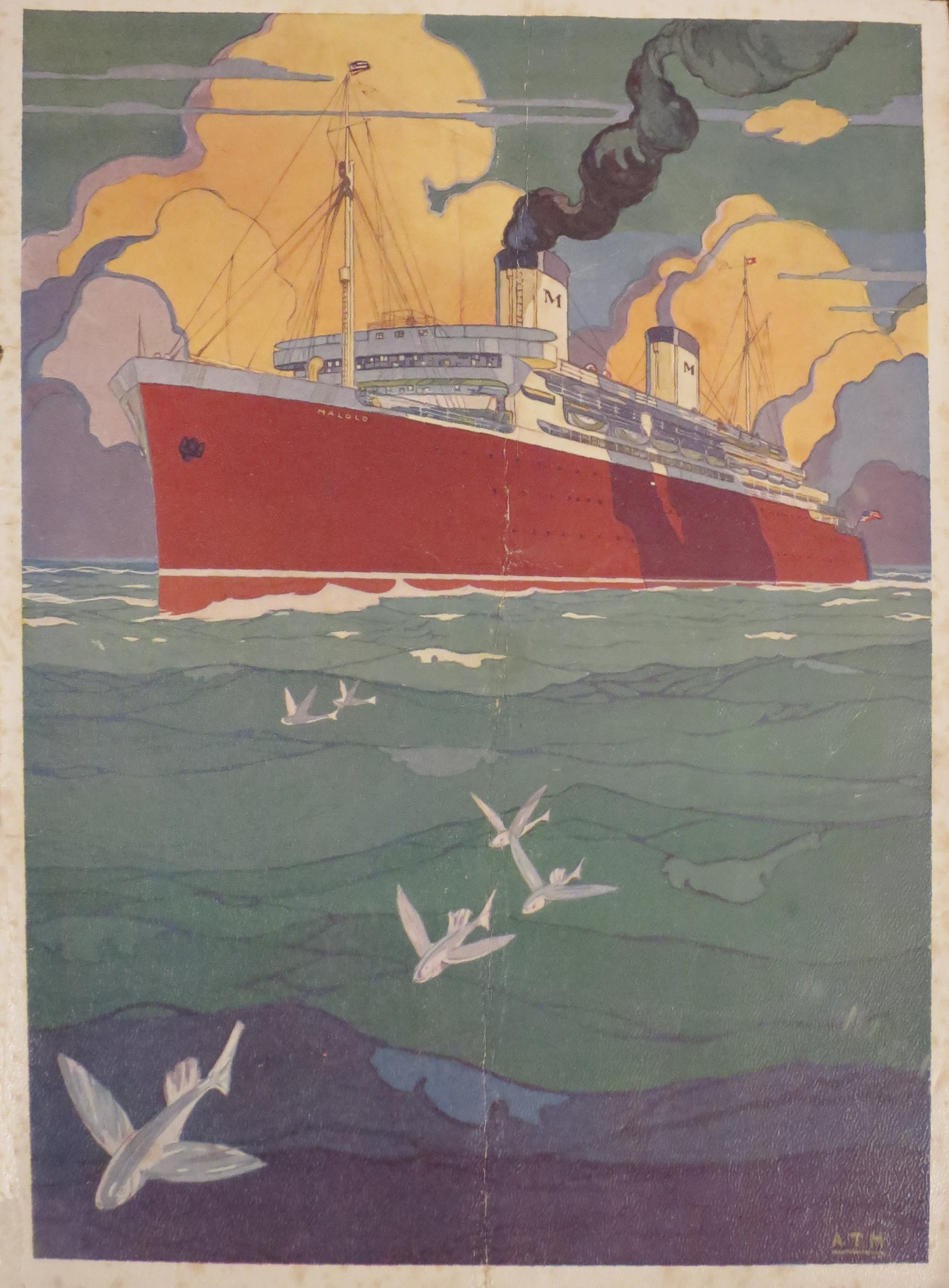 Cover of Royal Hawaiian Hotel banquet menu for the first voyage of the Matson Lines ship Malolo to Hawaii by Arman Manookian, 1927, private collection